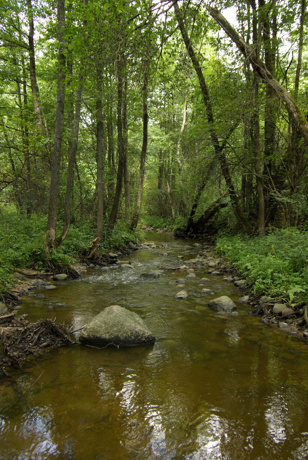 Širvinta river (tributary of Šeimena) in Vilkaviškis district, Lithuania